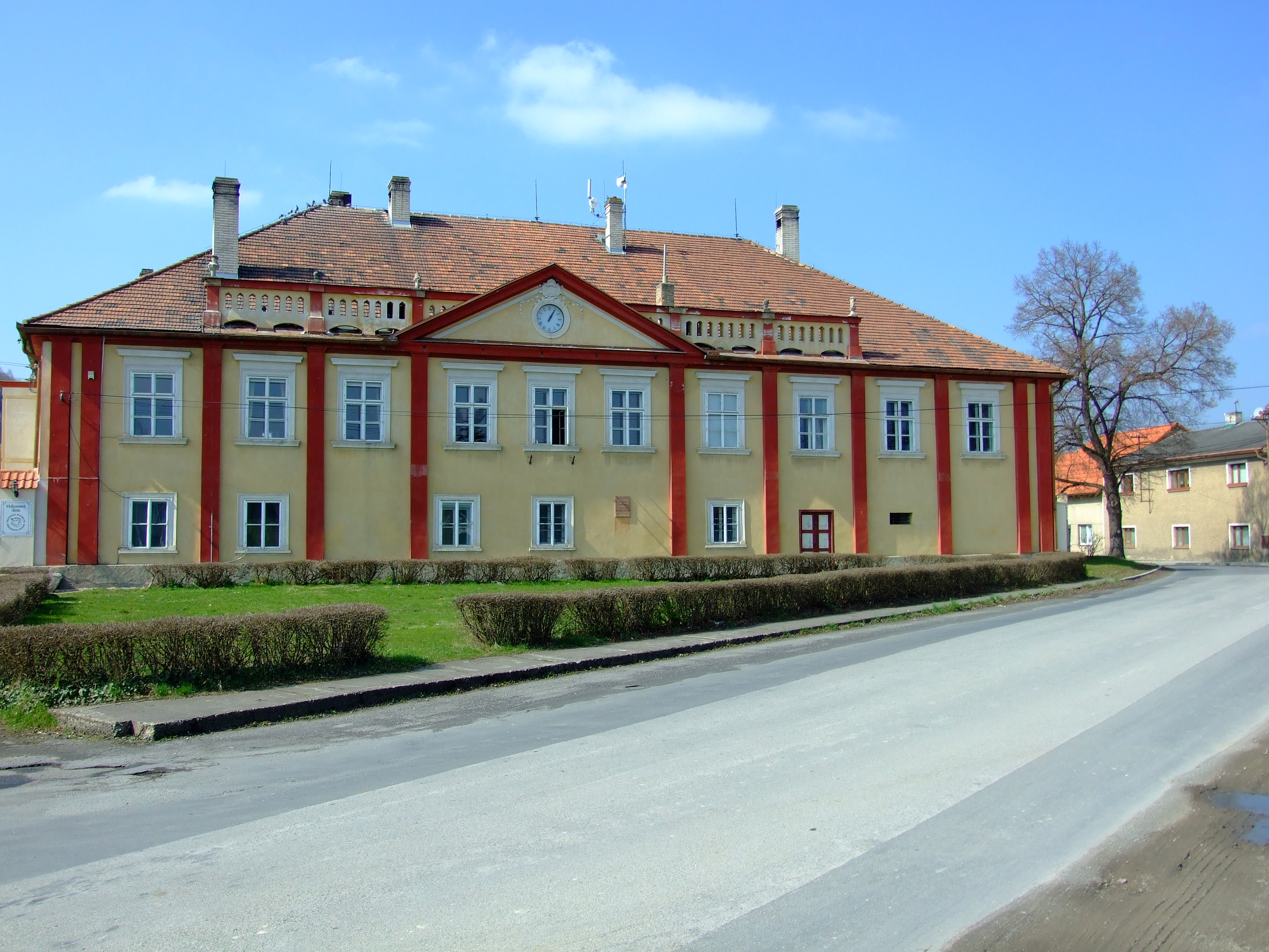 Town of Tetín and its surrounding nature in Central Bohemian region, CZhelp